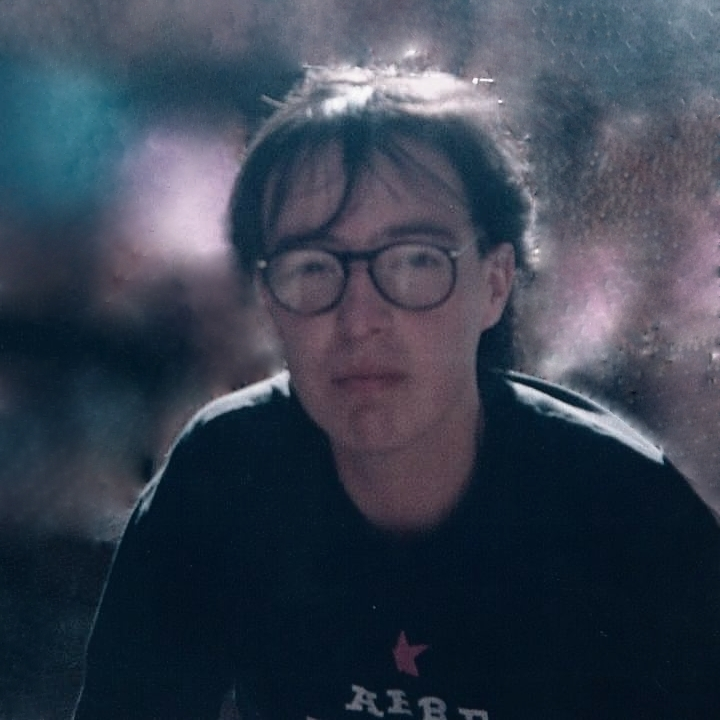 Rafael Chaparro